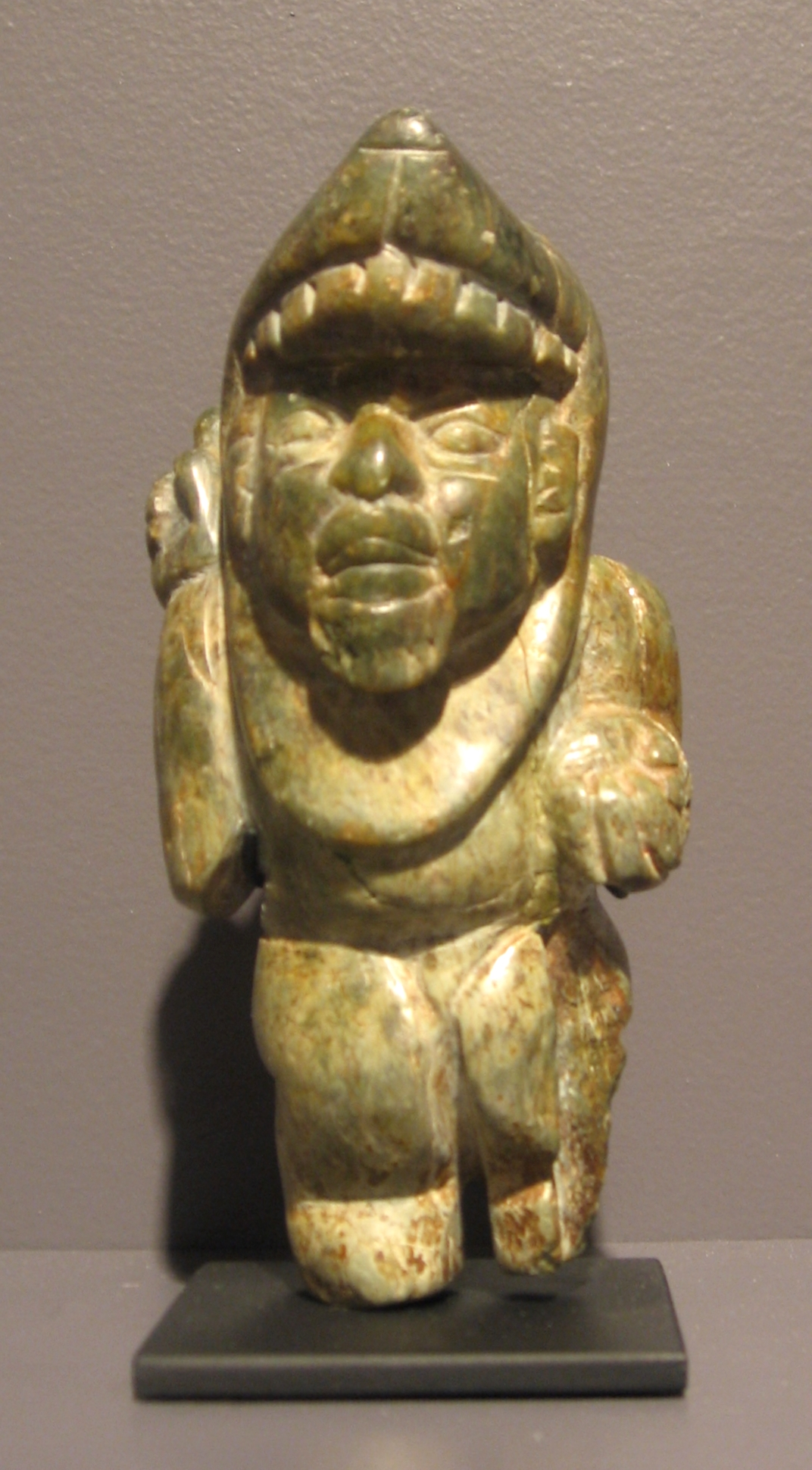 Soft greenstone figurine from Izapa, 300 BC - 250 AD